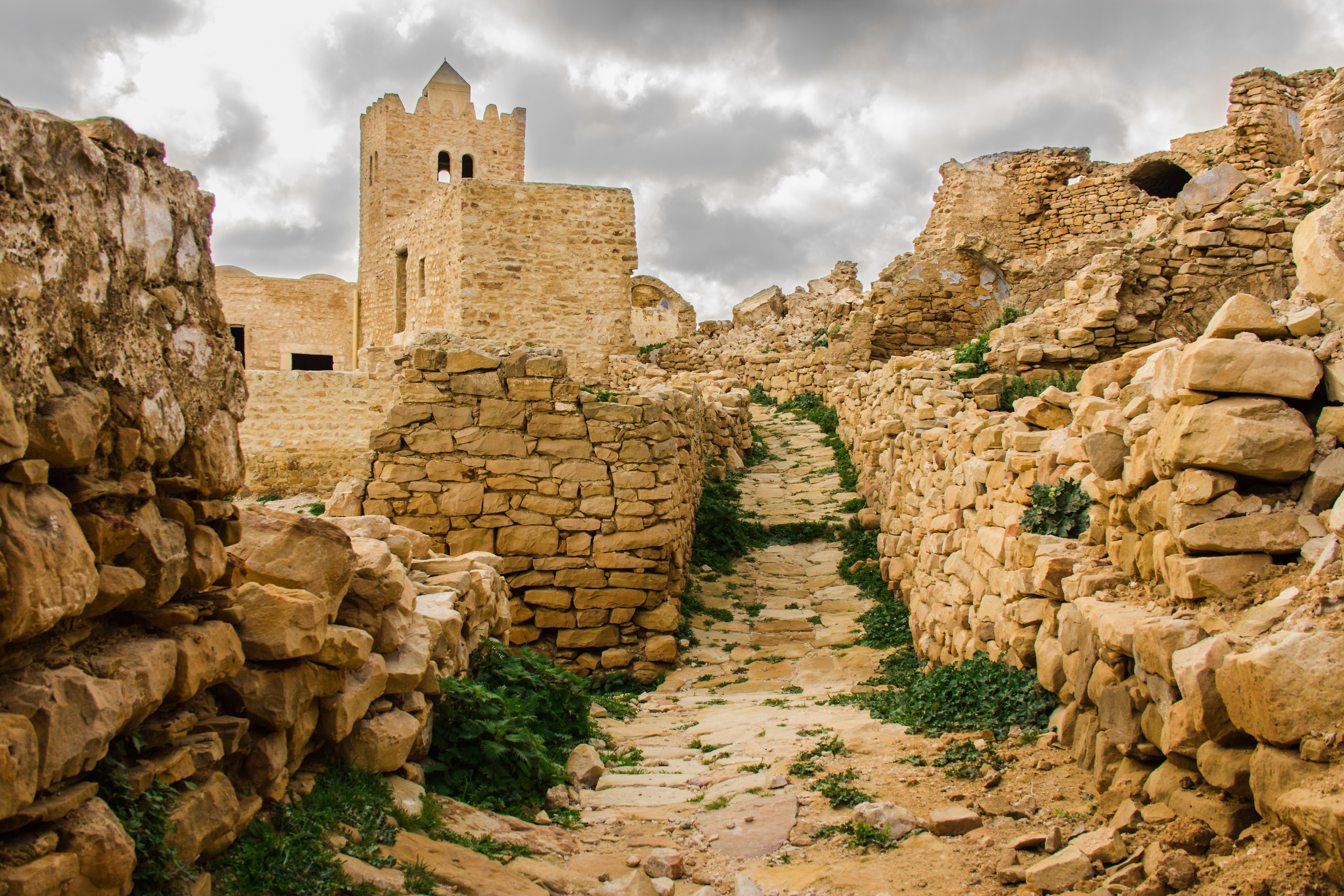 The way to the Mosque of Zriba Olia